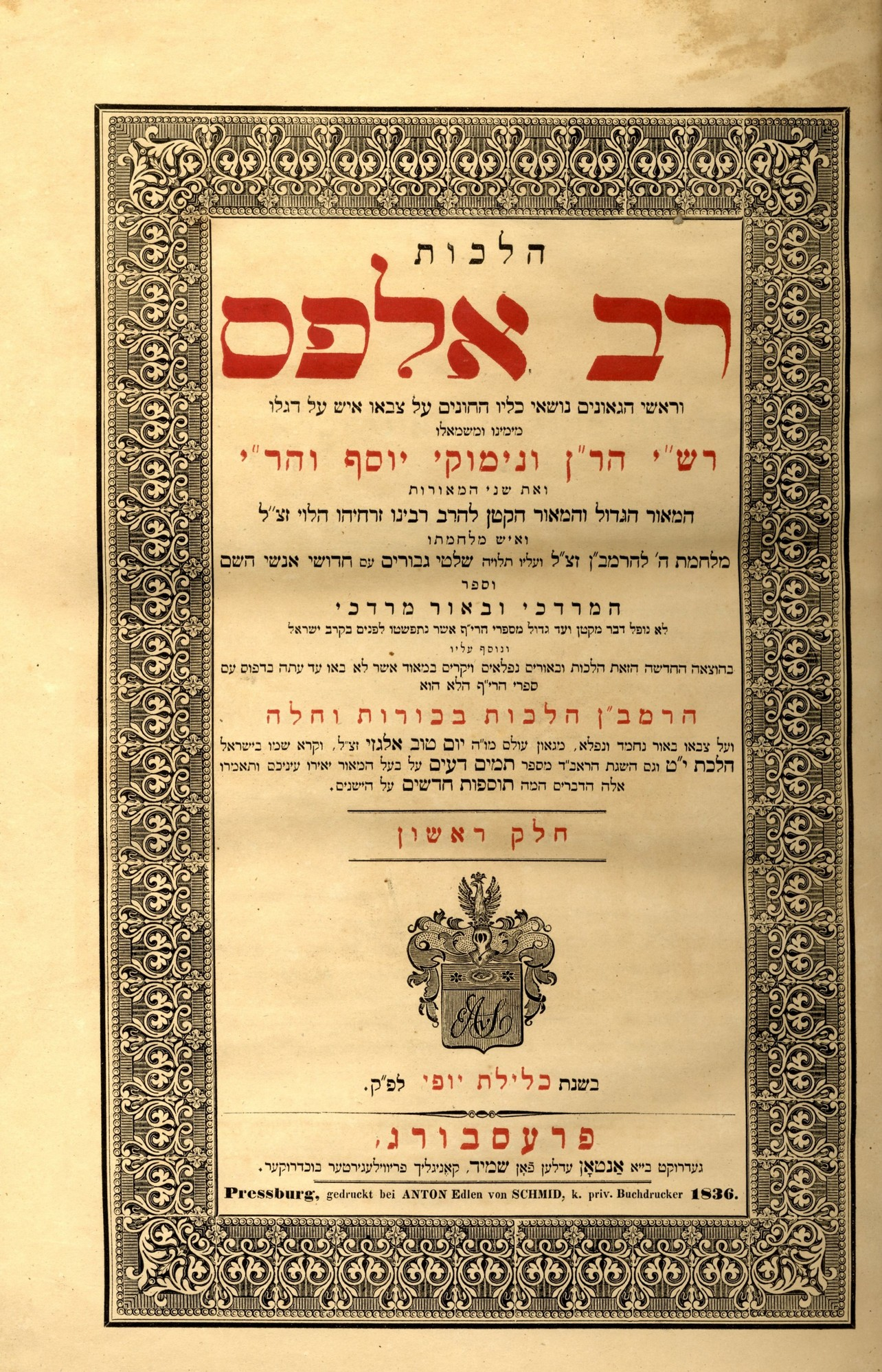 Hilchot Rav Alfas with commentaries: Rashi, Ran, Nimukei Yosef, Rabbeinu Yonah, Rabbi Zerachyah HaLevi, and more. With Mordechai and Hilchot Bechorot v'Challah l'Ramban with the elucidation of Rabbi Yom Tov Algazi. Pressburg, 1836-1839.